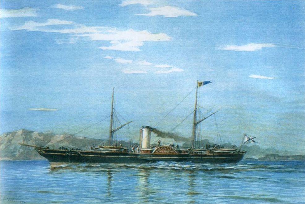 Alexander Karlovich Beggrov (1841-1914) Imperial yacht "Standart" (1858-1879)